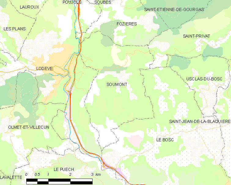 Map commune FR insee code 34306.png - Soumont